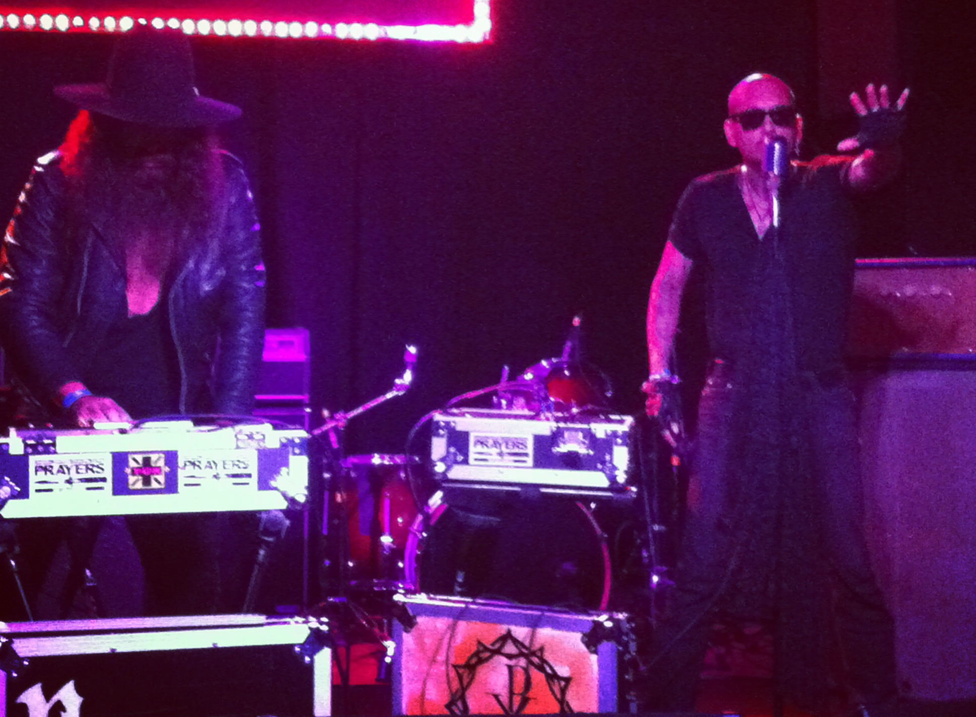 Cholo Goth pioneers, Prayers. Left: Dave Parley; right Rafael Reyes, aka Leafar Seyer